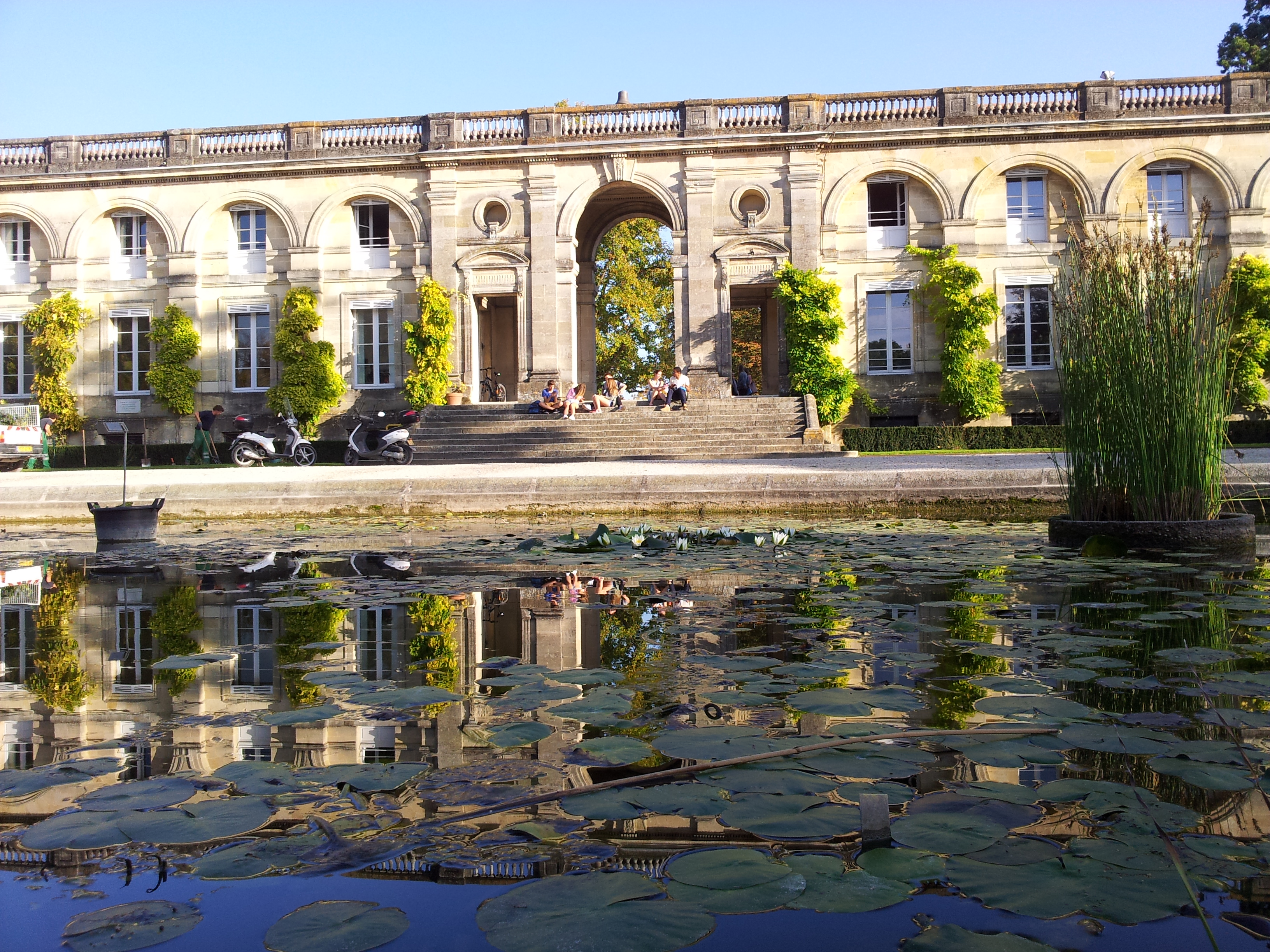 Ingress of the Public Garden view from the Botanic Garden.